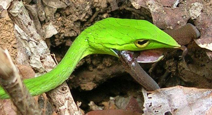 Ahaetulla nasuta with Ristella travancorica Photograph by L. Shyamal, Wynaad 2006